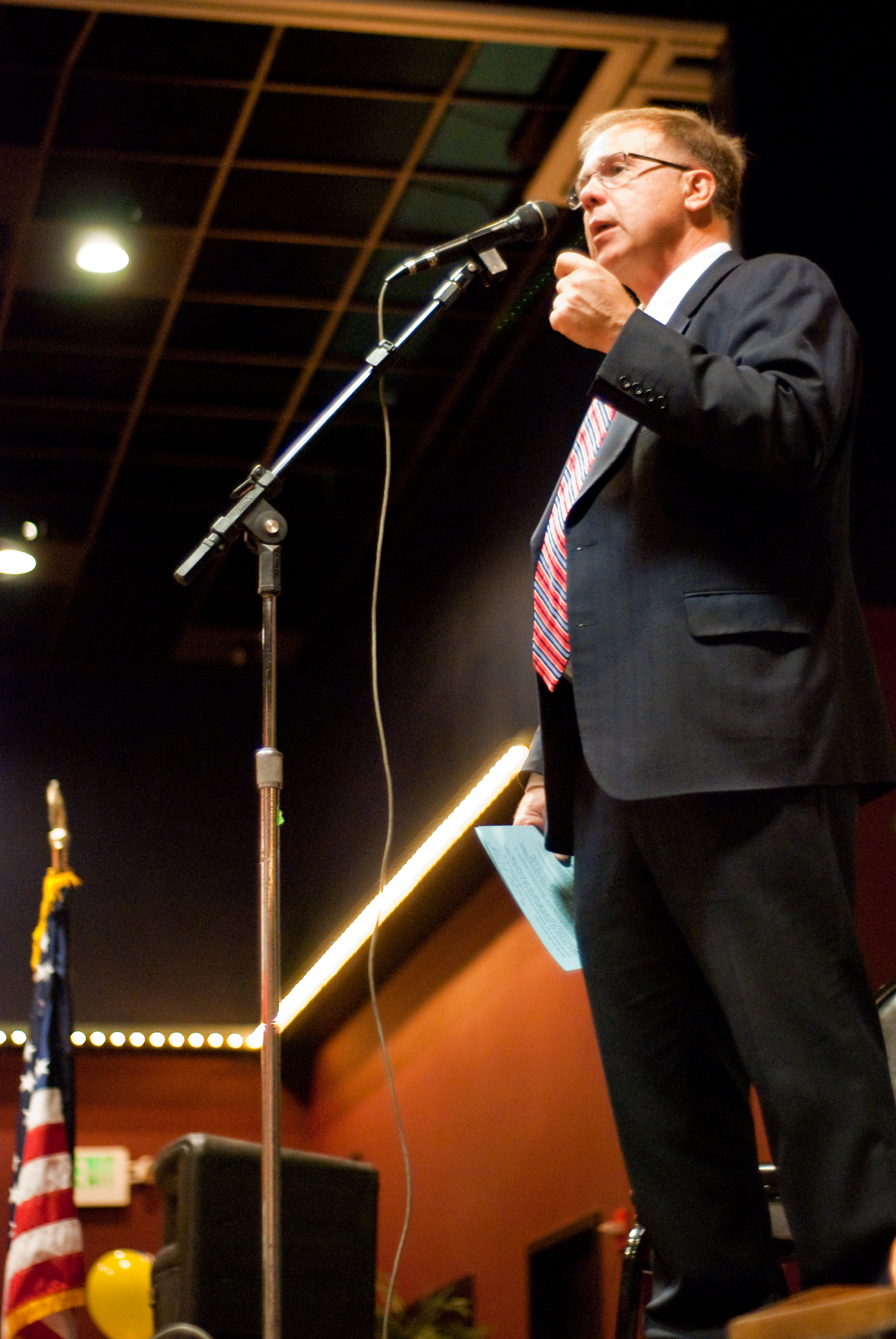 Dick Muri during the Pierce County Kickoff